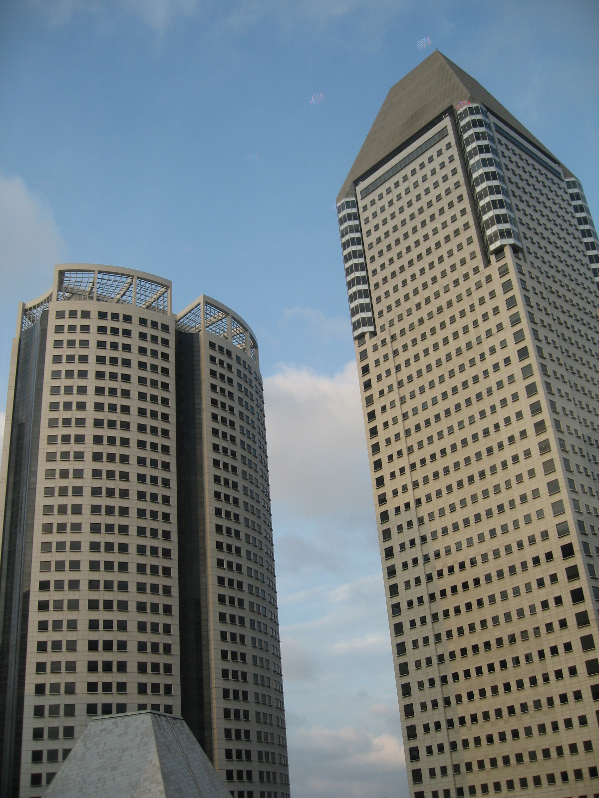 Centennial Tower and Millenia Tower.